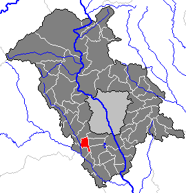 This map shows the area of the Gemeinde (municipality) Haselsdorf-Tobelbad in the Bezirk (district) Graz-Umgebung, Styria, Austria.